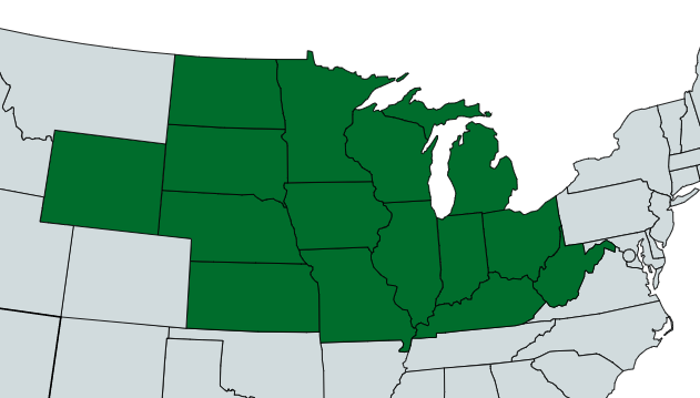 Map of US States with Menards Stores